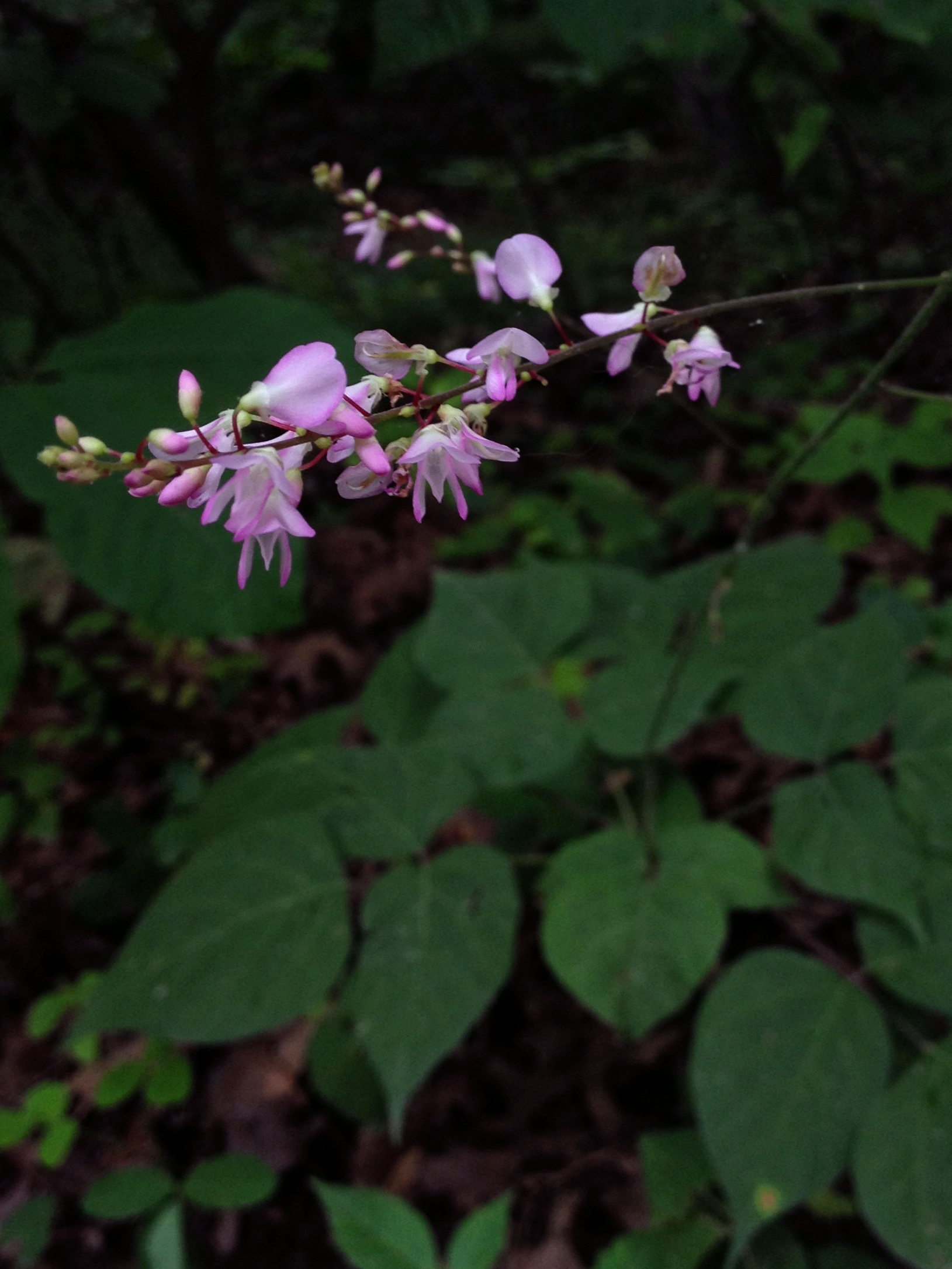 Photo of Hylodesmum glutinosum in flower. This is a native plant growing wild in Great Falls Park, Fairfax county Virginia, USA. It's name was recently changed from Desmodium glutinosum. This species is a member of the Fabaceae family.